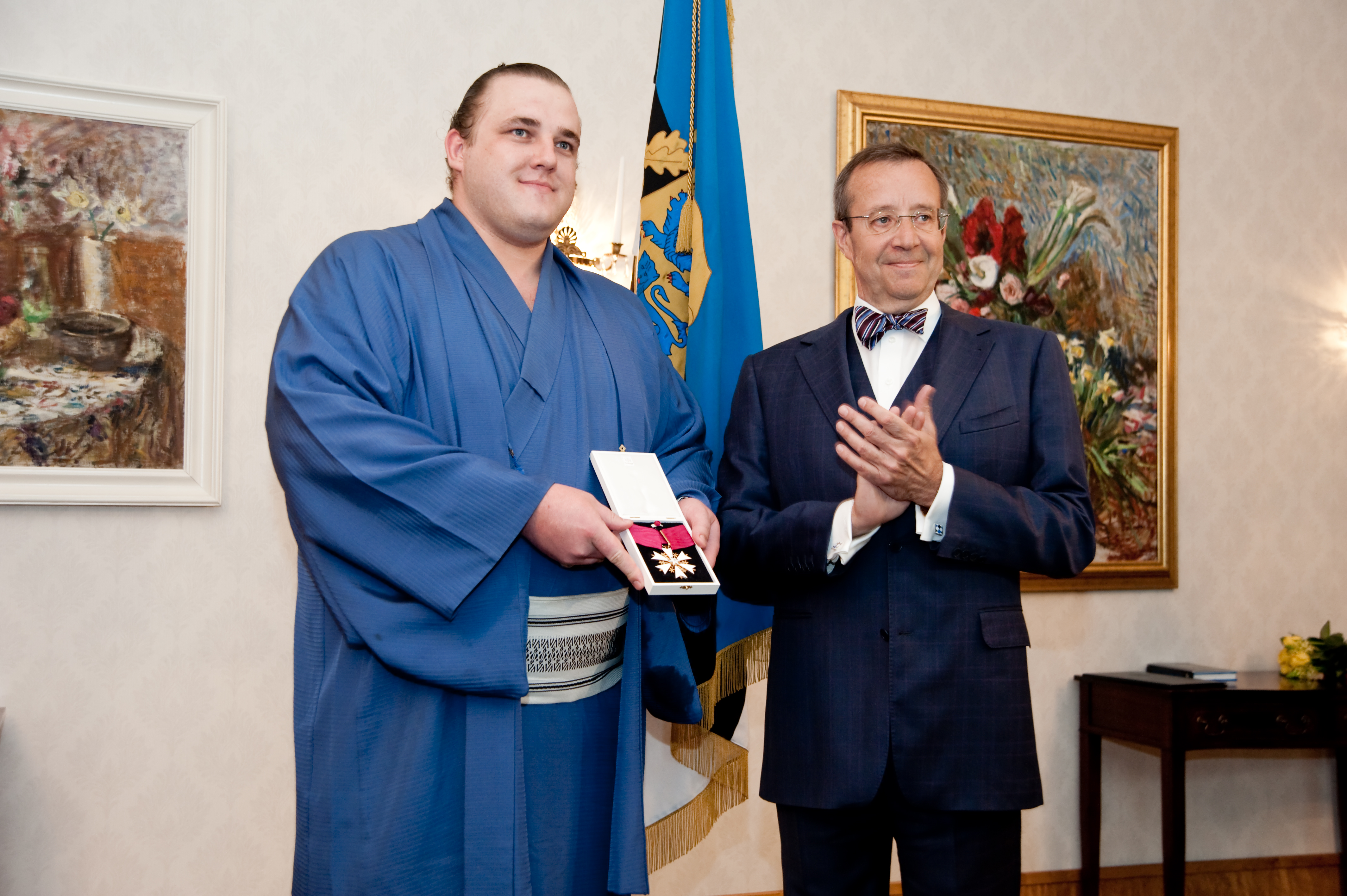 President Ilves hands over decoration to sumo wrestler Baruto Kaito (real name Kaido Höövelson).